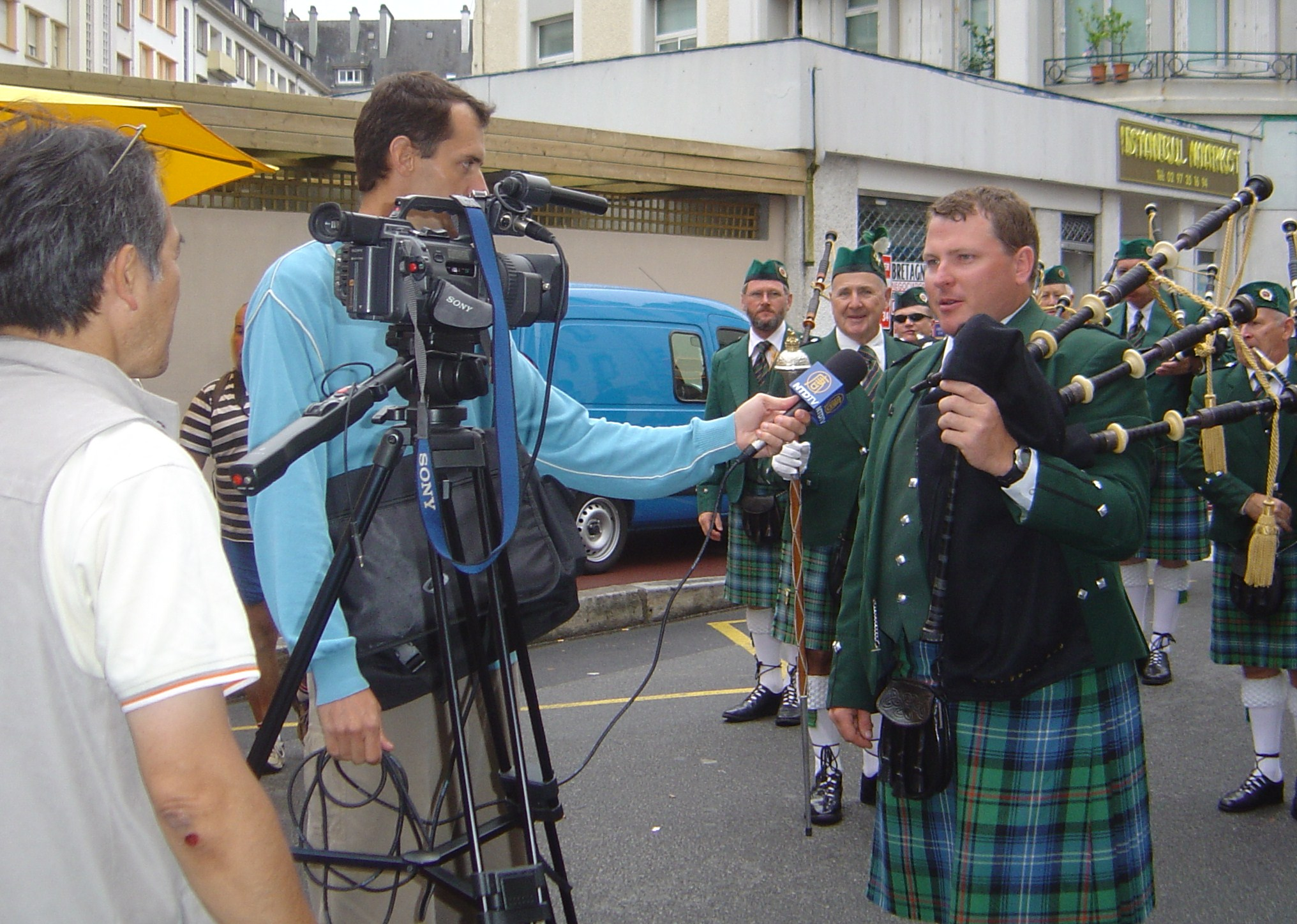 Queensland Irish Association's pipeband with some NTD TV journalists during the 2006 Interceltic Festival in Lorient, France